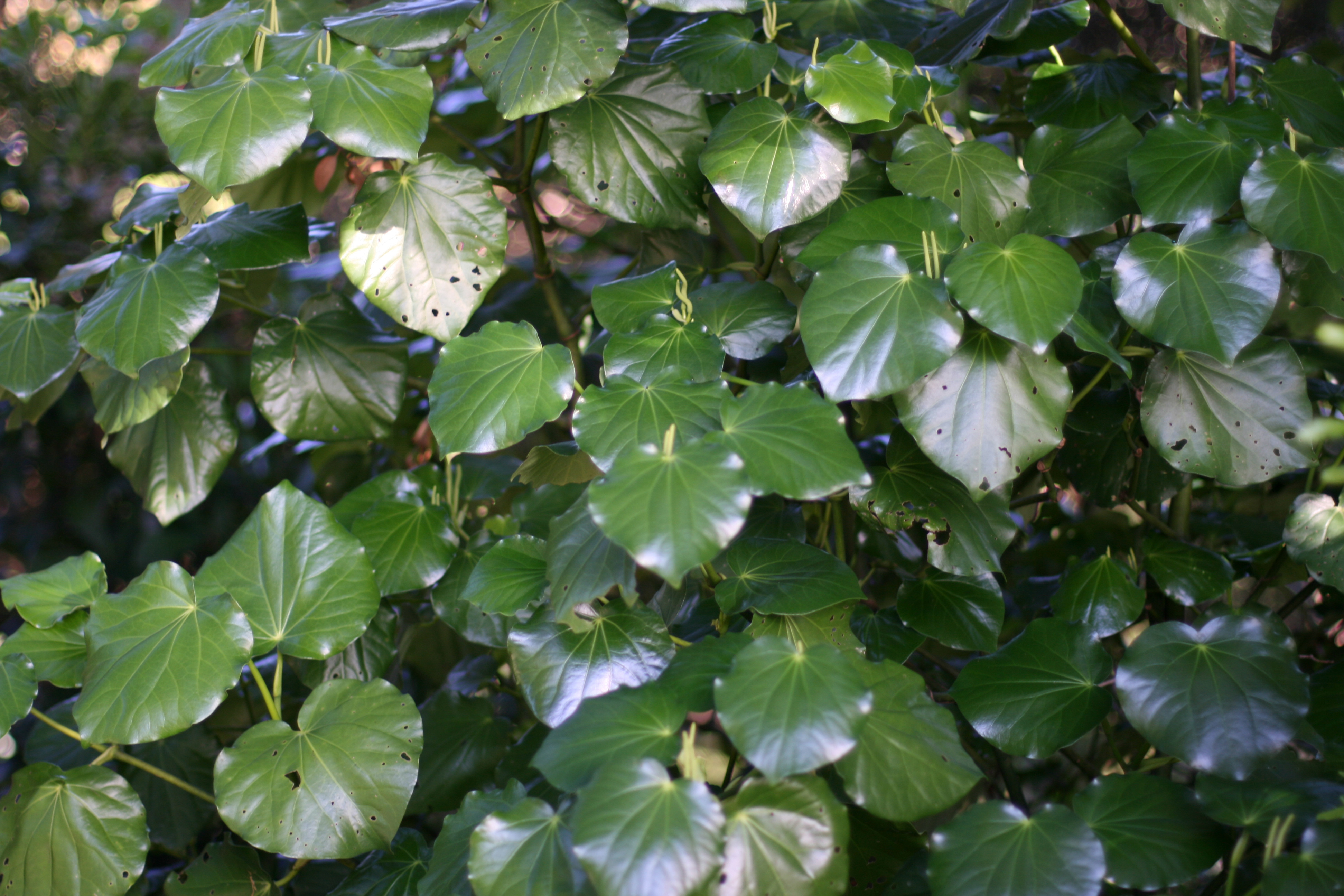 Macropiper excelsum, Kawakawa tree, Auckland, New Zealand.